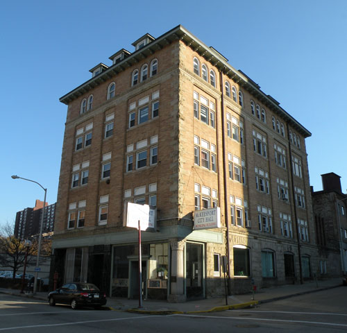 Picture of the McKeesport National Bank (now McKeesport City Hall) located at 5th Avenue and Sinclair Street in McKeesport, Pennsylvania, on November 8, 2009. The building was built from 1889 to 1891, and is listed on the National Register of Historic Places. Architects: Longfellow, Alden & Harlow.